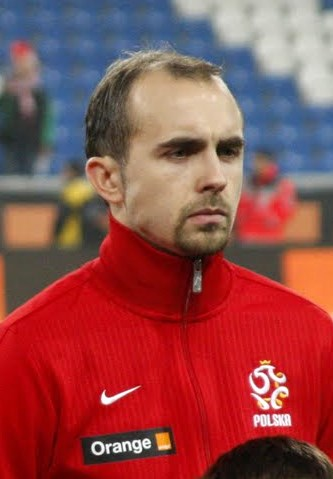 Polish football plyer Adrian Mierzejewski